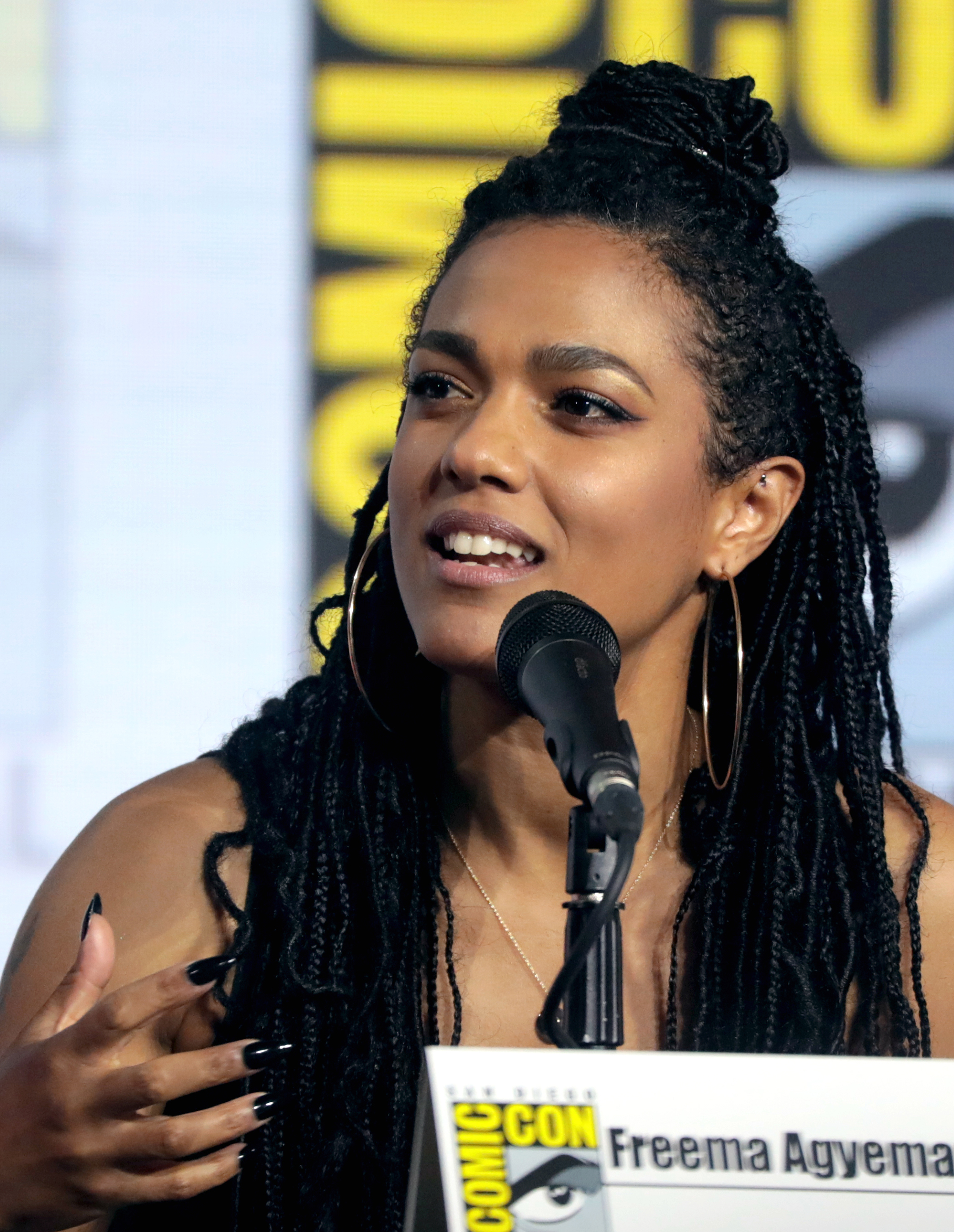 Freema Agyeman speaking at the 2019 San Diego Comic-Con International in San Diego, California.